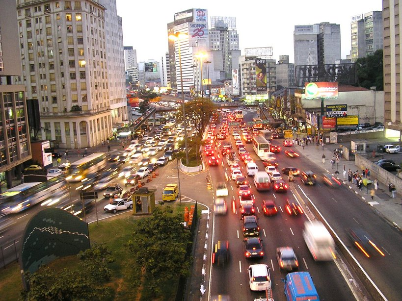 A picture of rush hour in Prestes Maia expressway, in São Paulo, Brazil, taken by myself from a viaduct.